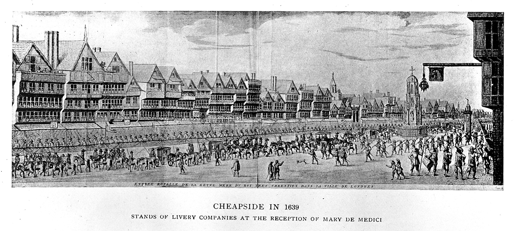 Cheapside in 1639. Stands of the Livery Companies at the reception of Mary de Medici. Wellcome Images Keywords: Topography; London; Great Britain